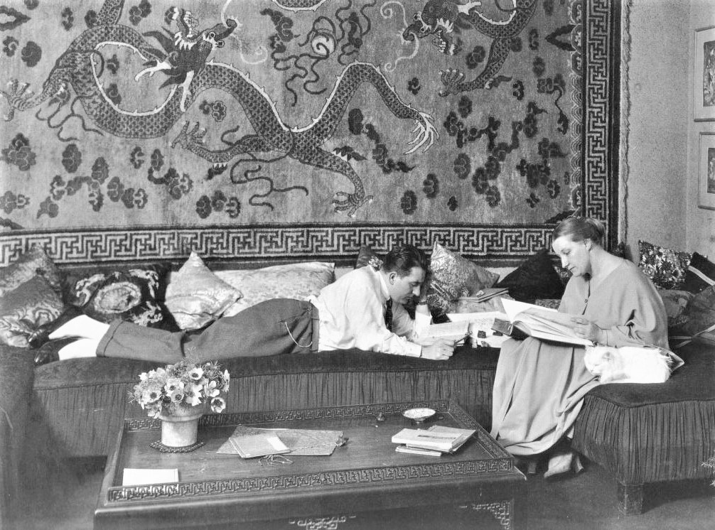 Fritz Lang and his wife Thea von Harbou in their Berlin apartment, in 1923 or 1924 (which is, when the script for Metropolis was prepared). The photograph is from a series about this famous couple and their suite.